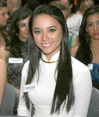 Miss Vietnam 2008 Duong Truong Thien Ly during Miss World 08